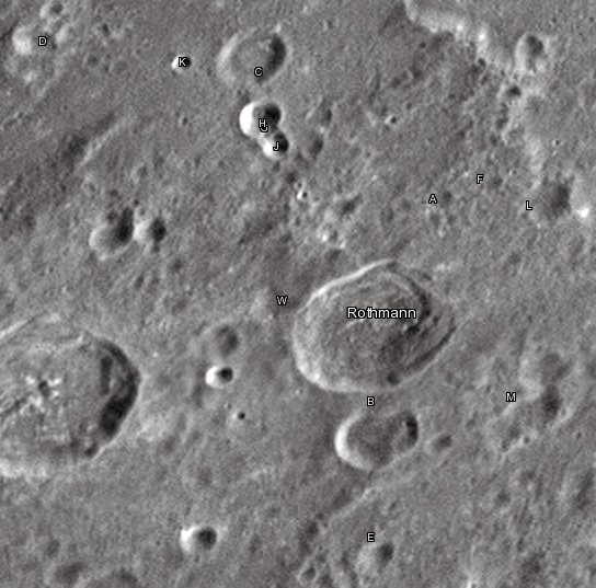 Rothmann lunar crater as seen from Earth with satellite craters labeled